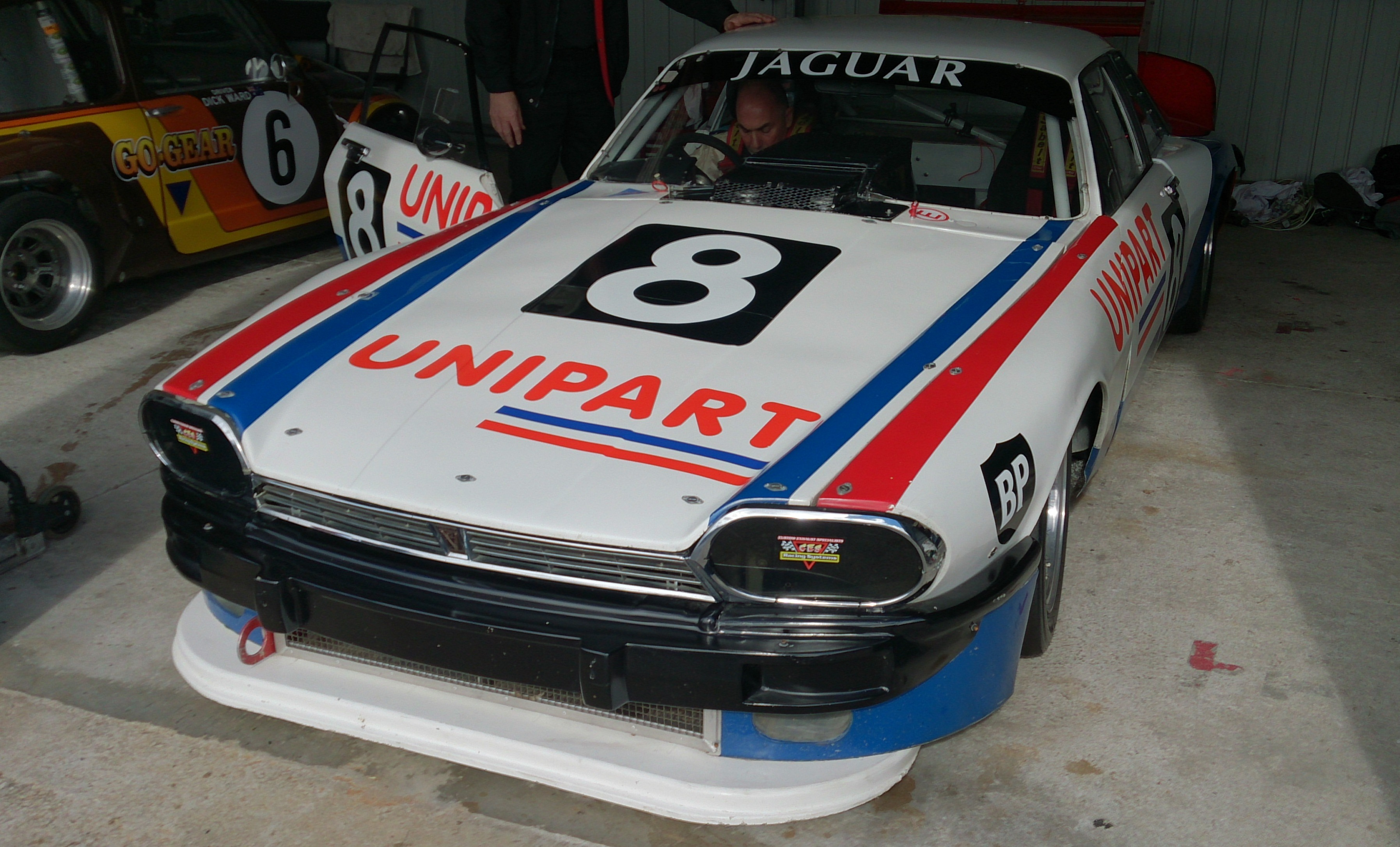 The Jaguar XJ-S of Mark Trenoweth at Mallala Motor Sport Park on 26 April 2015. The car was competing in the Group U category for historic Sports Sedans. Original owner John McCormack placed 4th in the 1980 Australian Sports Sedan Championship driving this car in this livery.